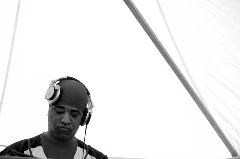 Hip-hop producer Marley Marl.